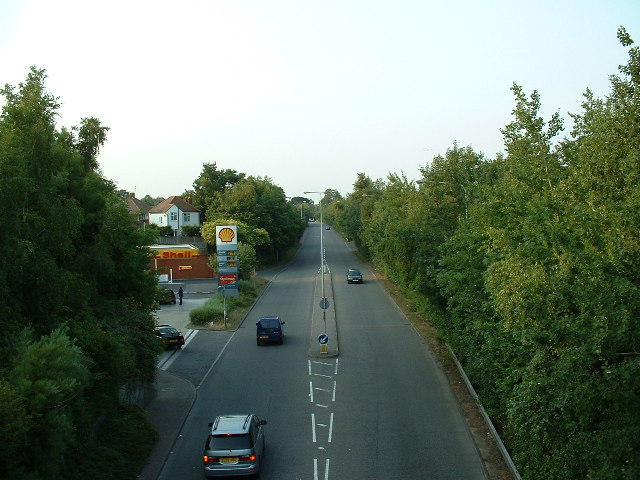 Thomas Lewis Way, Southampton. Looking North along Thomas Lewis Way, a fairly new road to take traffic into Southampton from Eastleigh avoiding the motorway and the congested areas of Swaythling and Portswood. This picture was taken from the Woodmill Lane bridge.